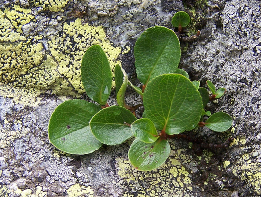 Salix herbacea (pl. wierzba zielna), habitat: Tatra Mountains, Granaty